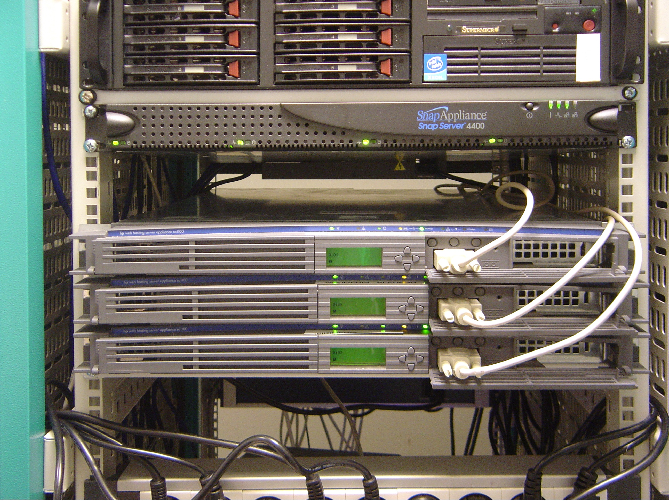 front view of the cluster of Wikimedia servers in Aubervilliers near Paris, France, installed on December 18, 2004; the three 1U servers of the same model (HP Proliant sa1100) in the middle are ours